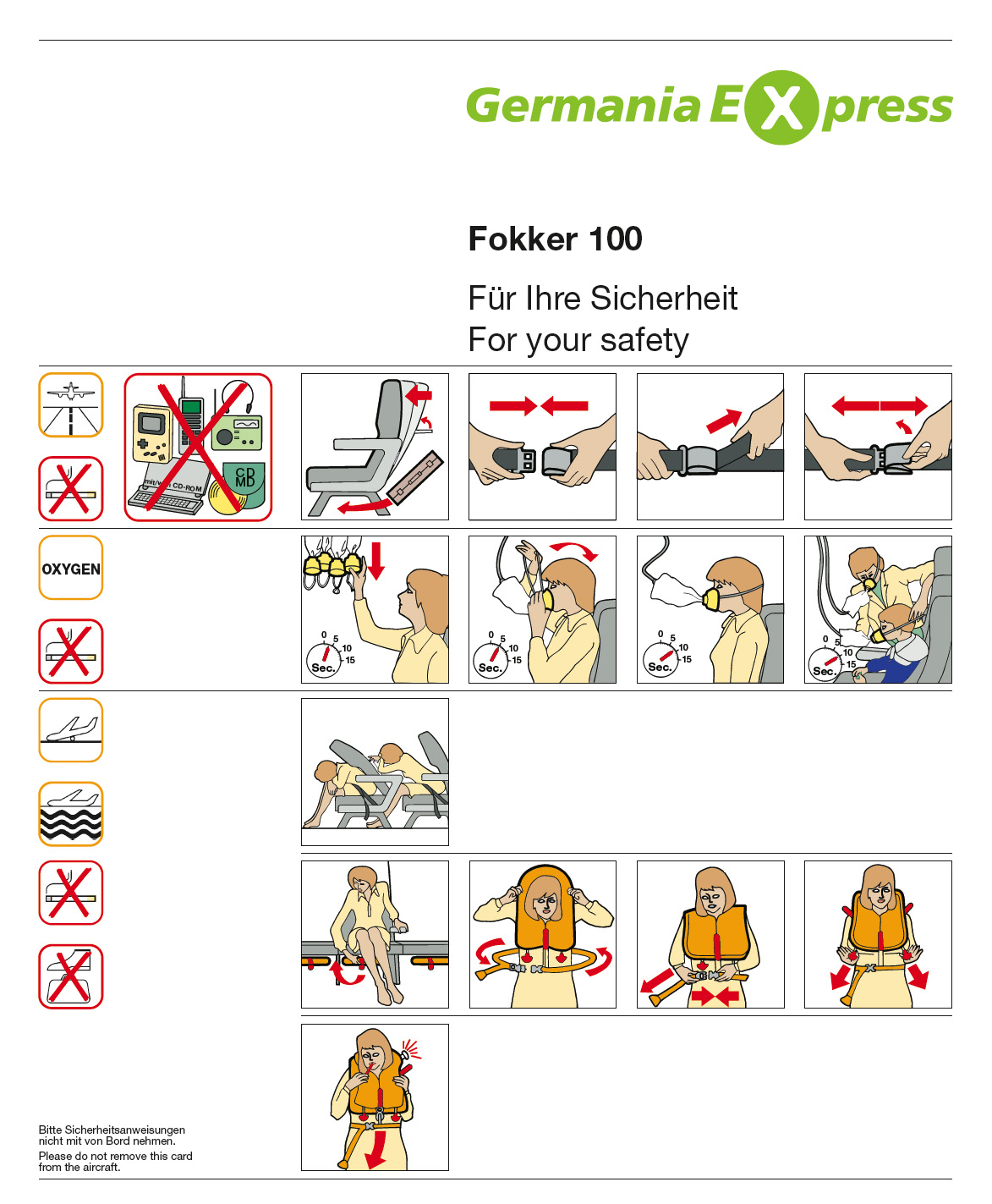 Flight Safety Instruction Germania